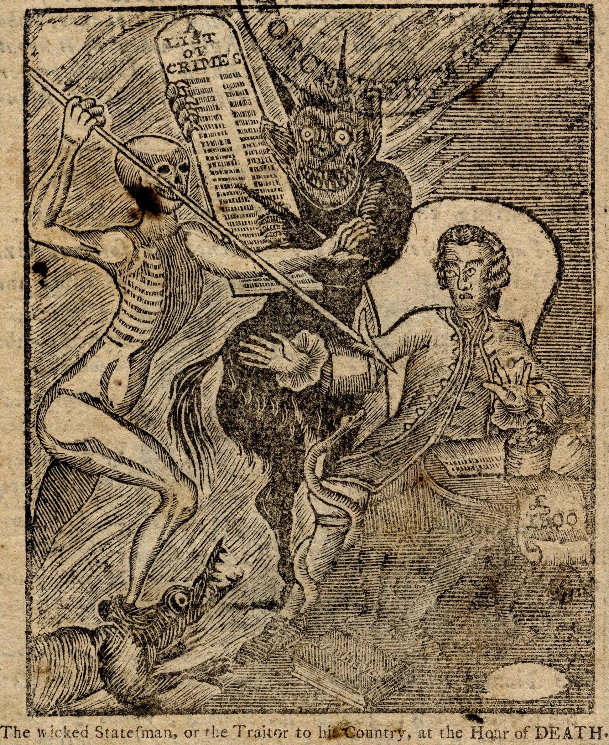 Political cartoon: "The wicked Statesman, or the Traitor to his Country, at the Hour of Deat[h]". Massachusetts royal governor Thomas Hutchinson is attacked by Death, who is accompanied by a devil carrying a slate reading "List of Crimes".